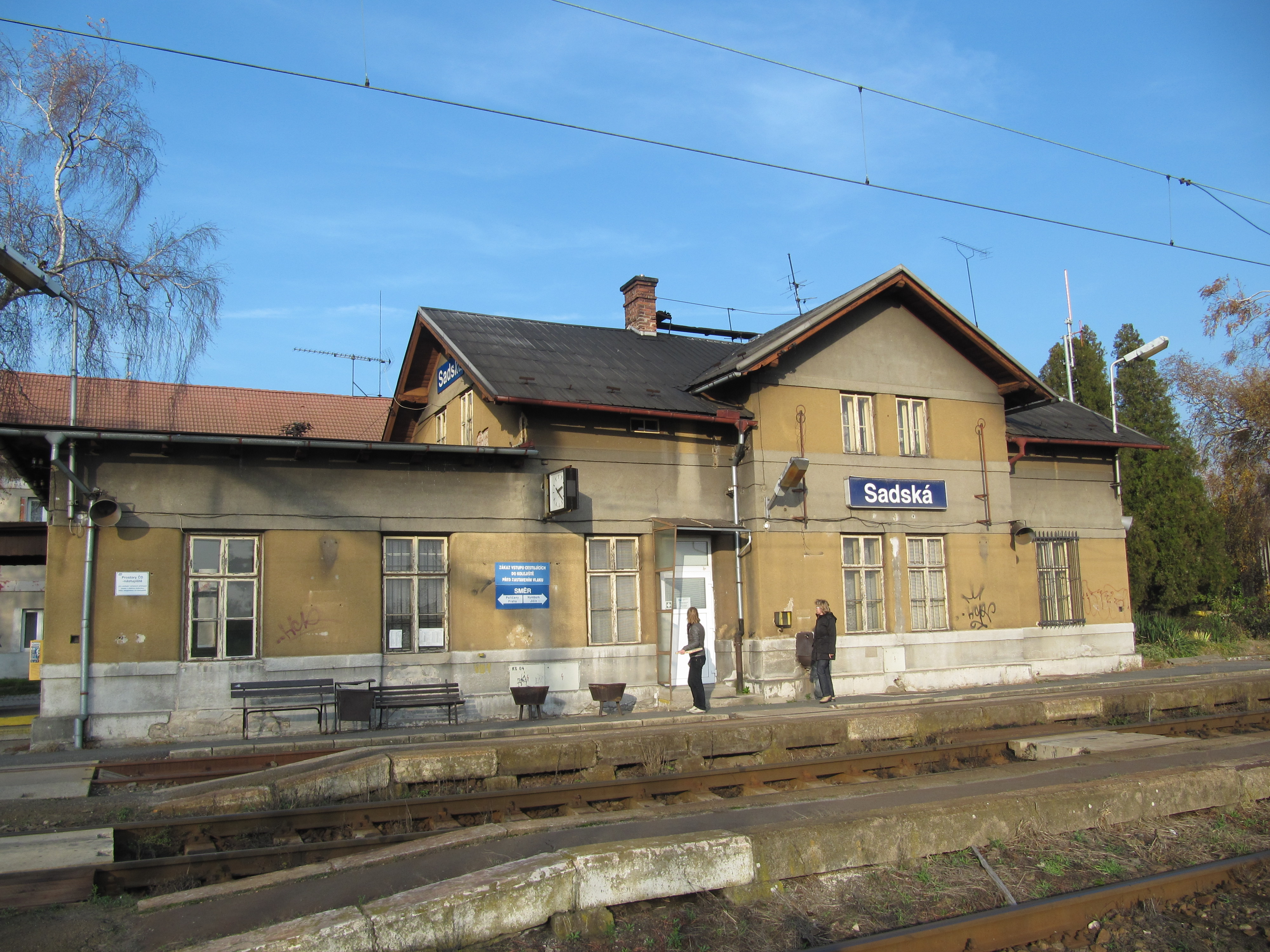 Sadská in Nymburk District, Czech Republic. Train station.